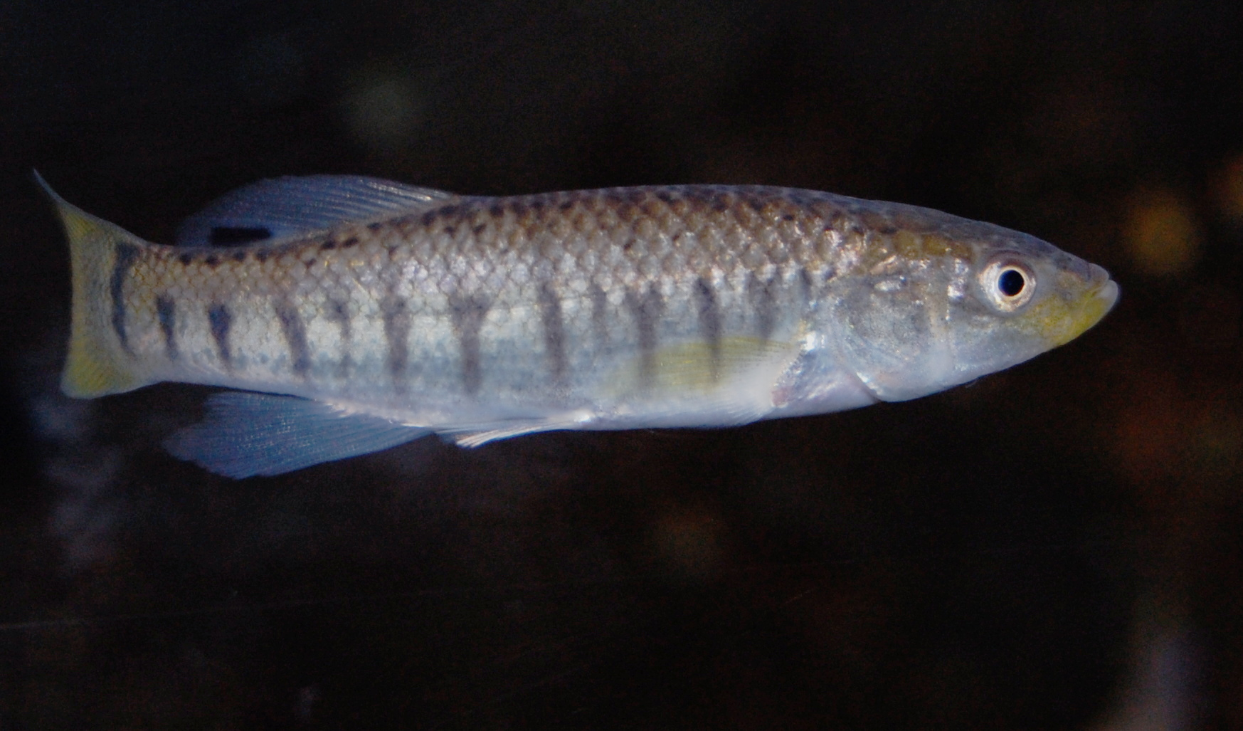 Striped killifish (Fundulus majalis), male specimen (vertical stripes), at the New England Aquarium, Boston MA.